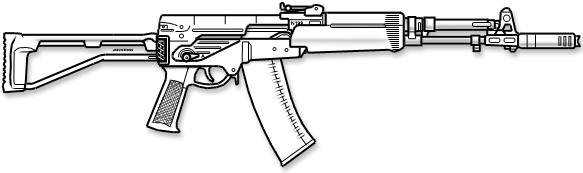 AEK-971